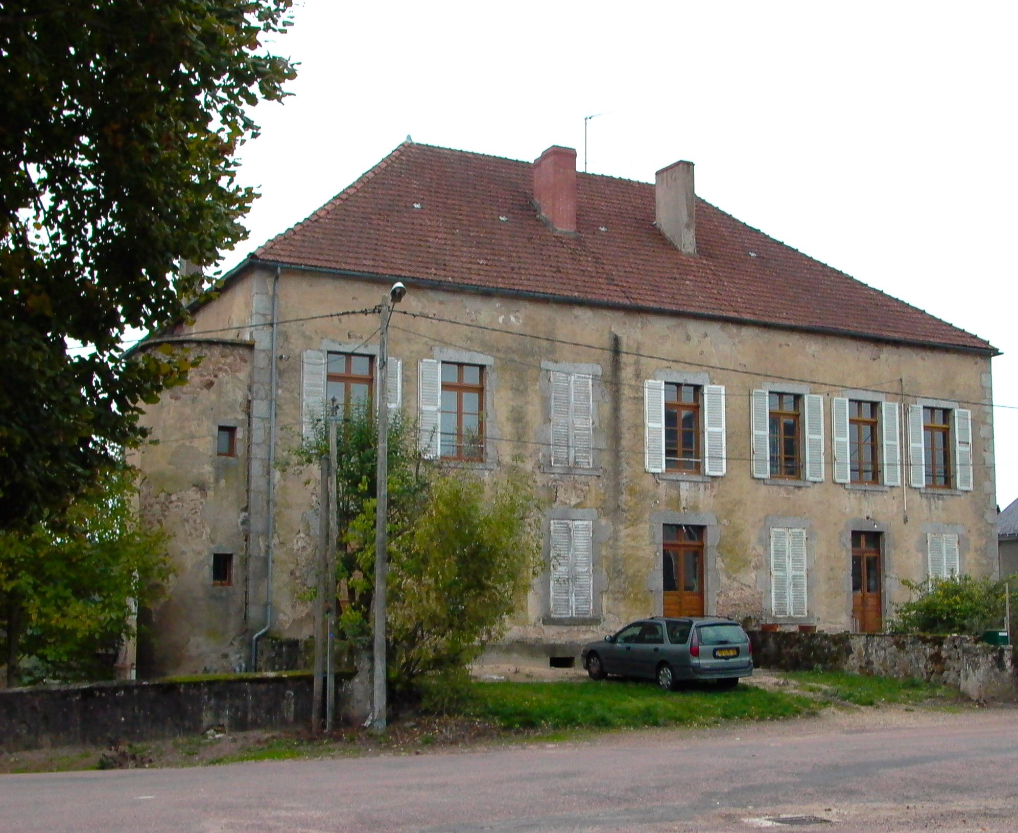 The castle or the house built by Mr Delagrange